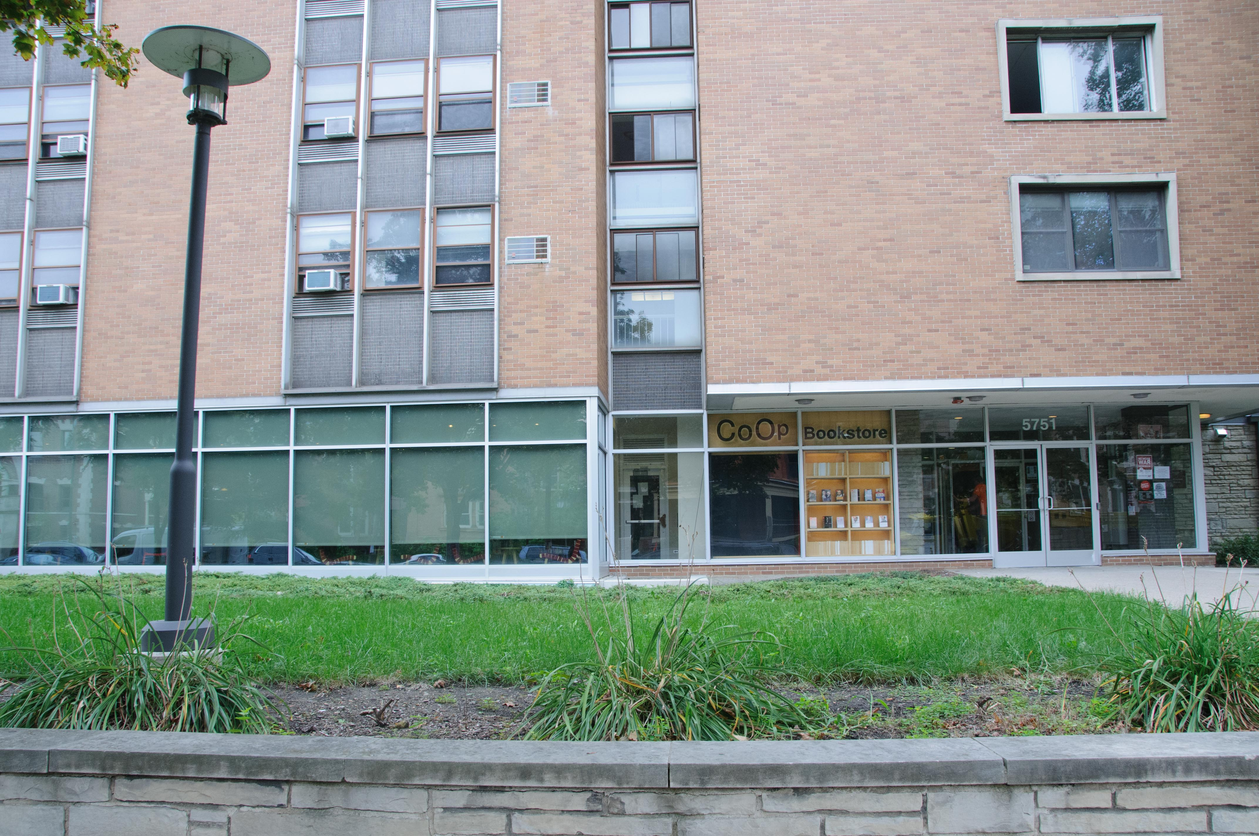 Photo of the Seminary Co-op bookstore on the University of Chicago Campus